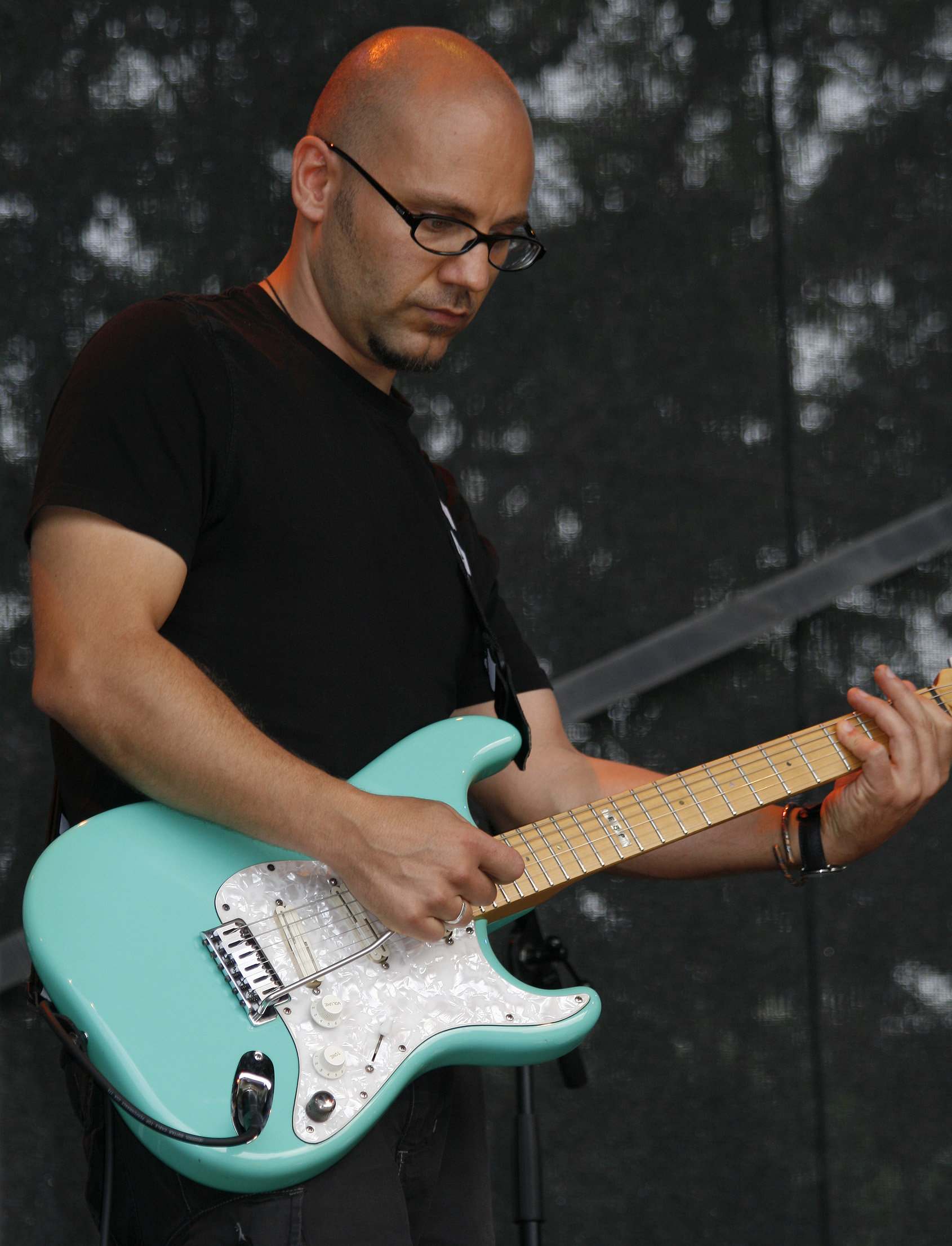 Austrian guitarist and producer Ernst Gottschmann, concert with Sibylle Kefer during the Donauinselfest 2008.